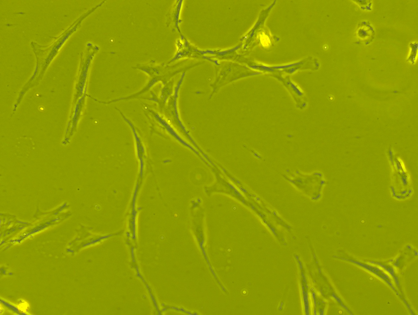 Chinmaya Mahapatra-Human bone marrow derived mesenchymal stem cell after 3 weeks of culture